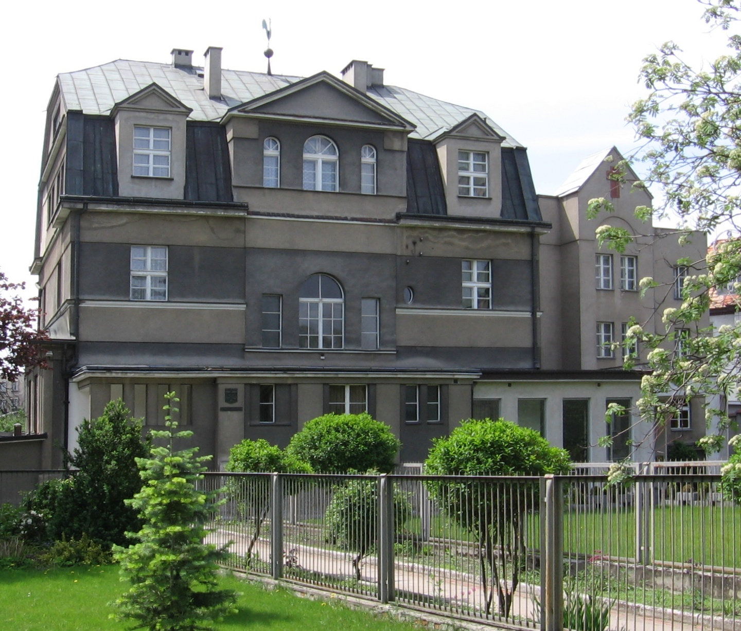 franciscan cloister in Wrocław (Krucza street 58), Poland